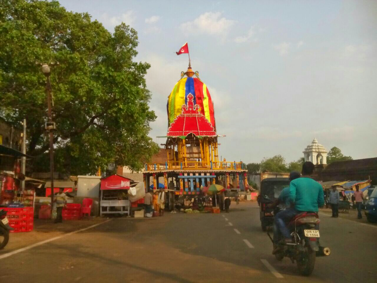 Rukuna Rath yatra is an annual Rath yatra of lord Lingaraj.